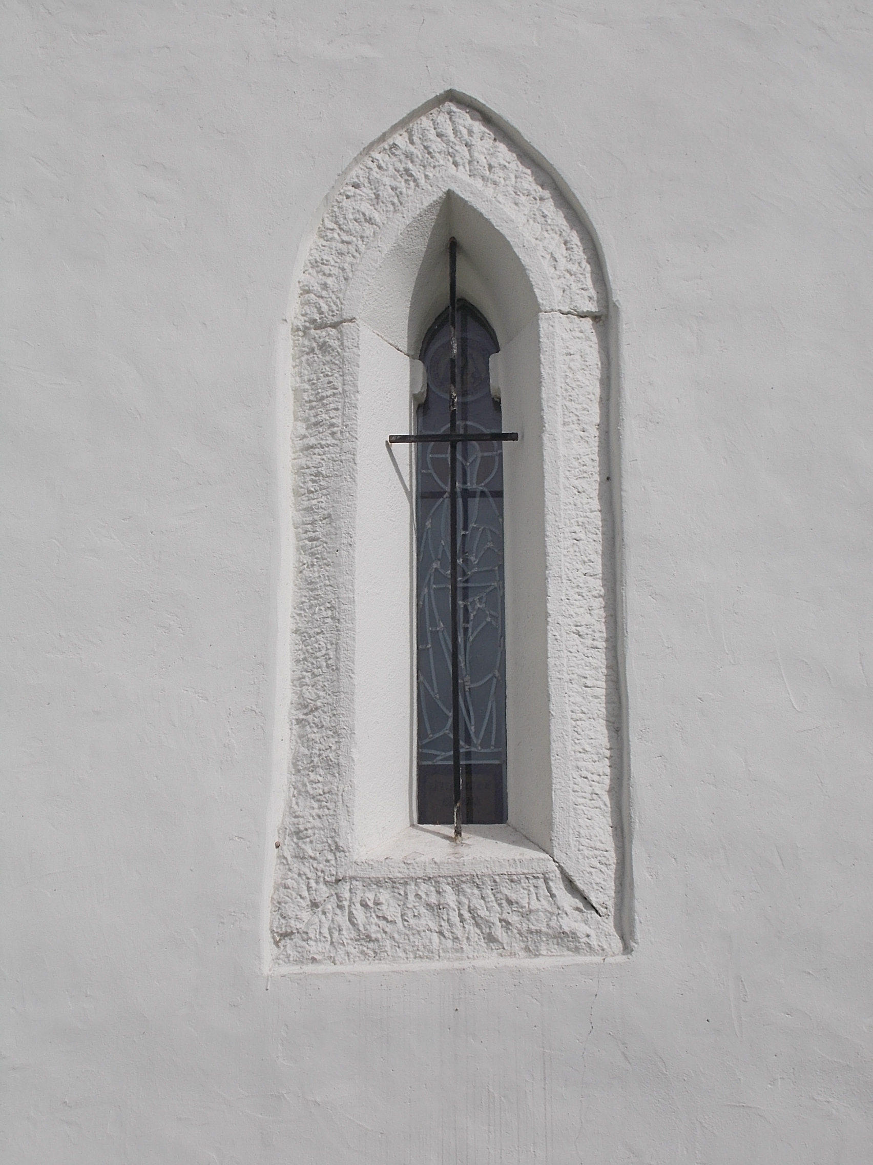 Saint Stephen of Hungary church. - Inota quarter, Várpalota, Veszprém County, Hungary.